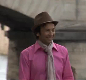 PATjE during a Flashmob in front of Notre Dame in Paris